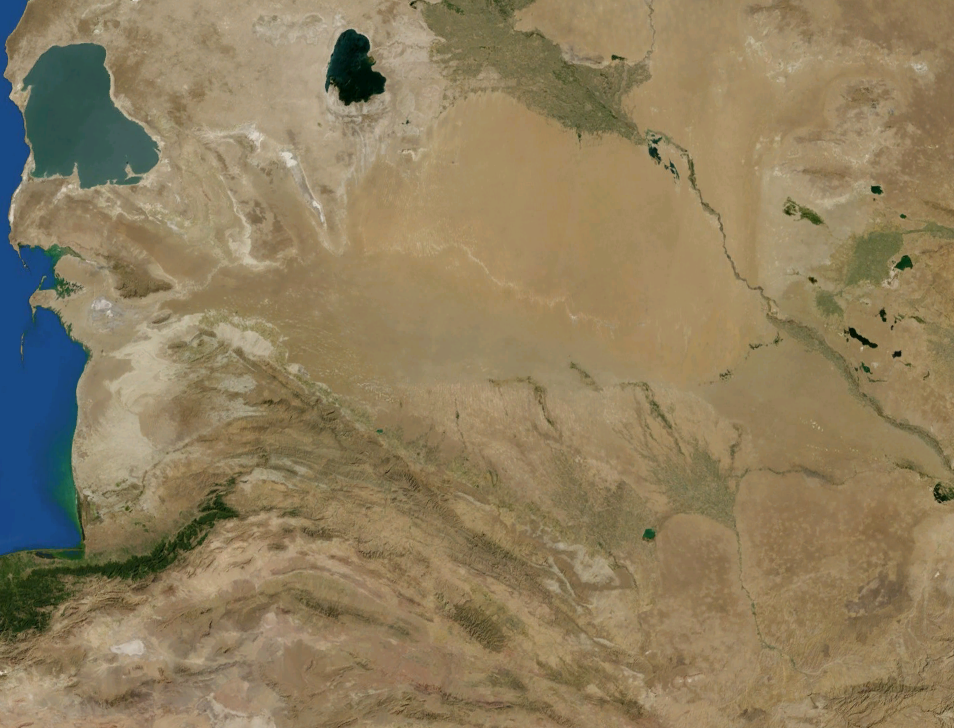 Satellite view of Karakum